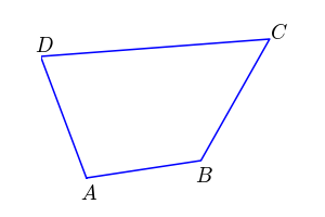 quadrilateral with indicated vertices